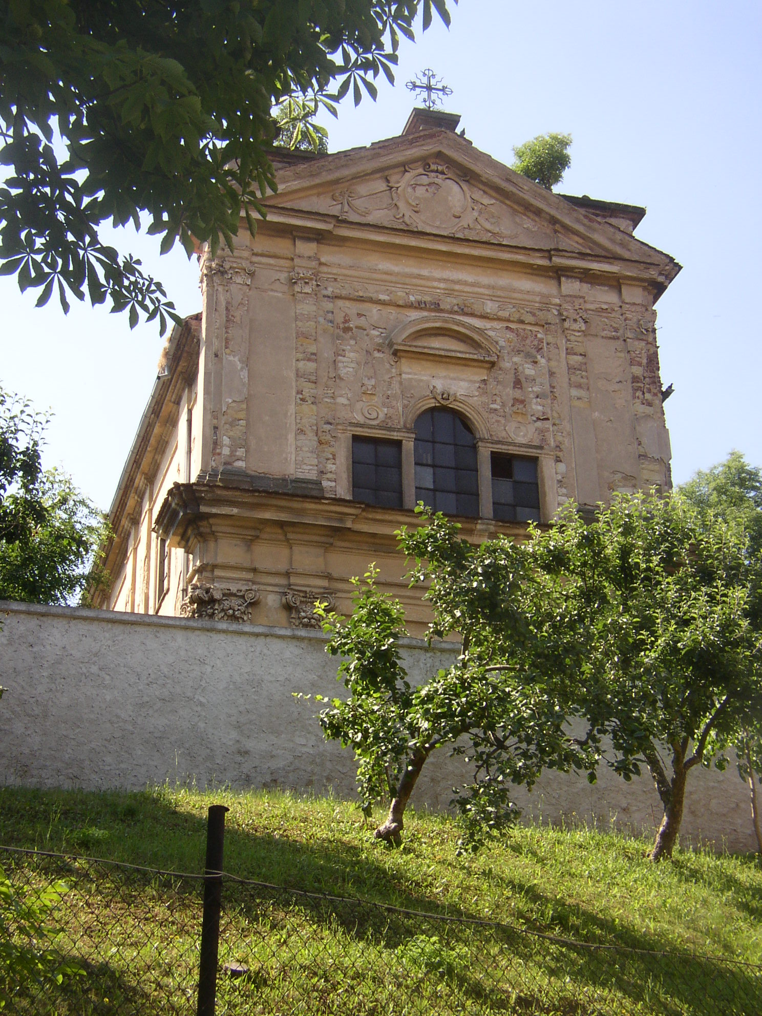 Dolánky nad Ohří, Litoměřice District. Front of St Giles church (1674-76) as seen from the north.